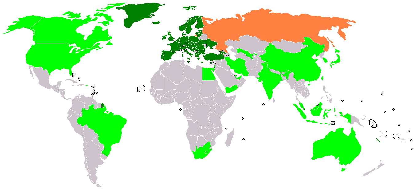 dark green - full members; light green - associate members